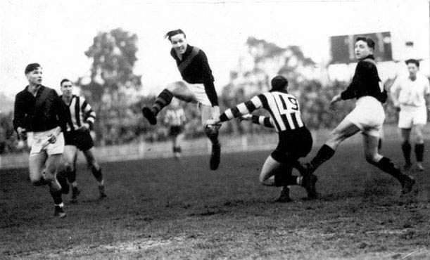 Australian football player, Dick Reynolds, kicking.